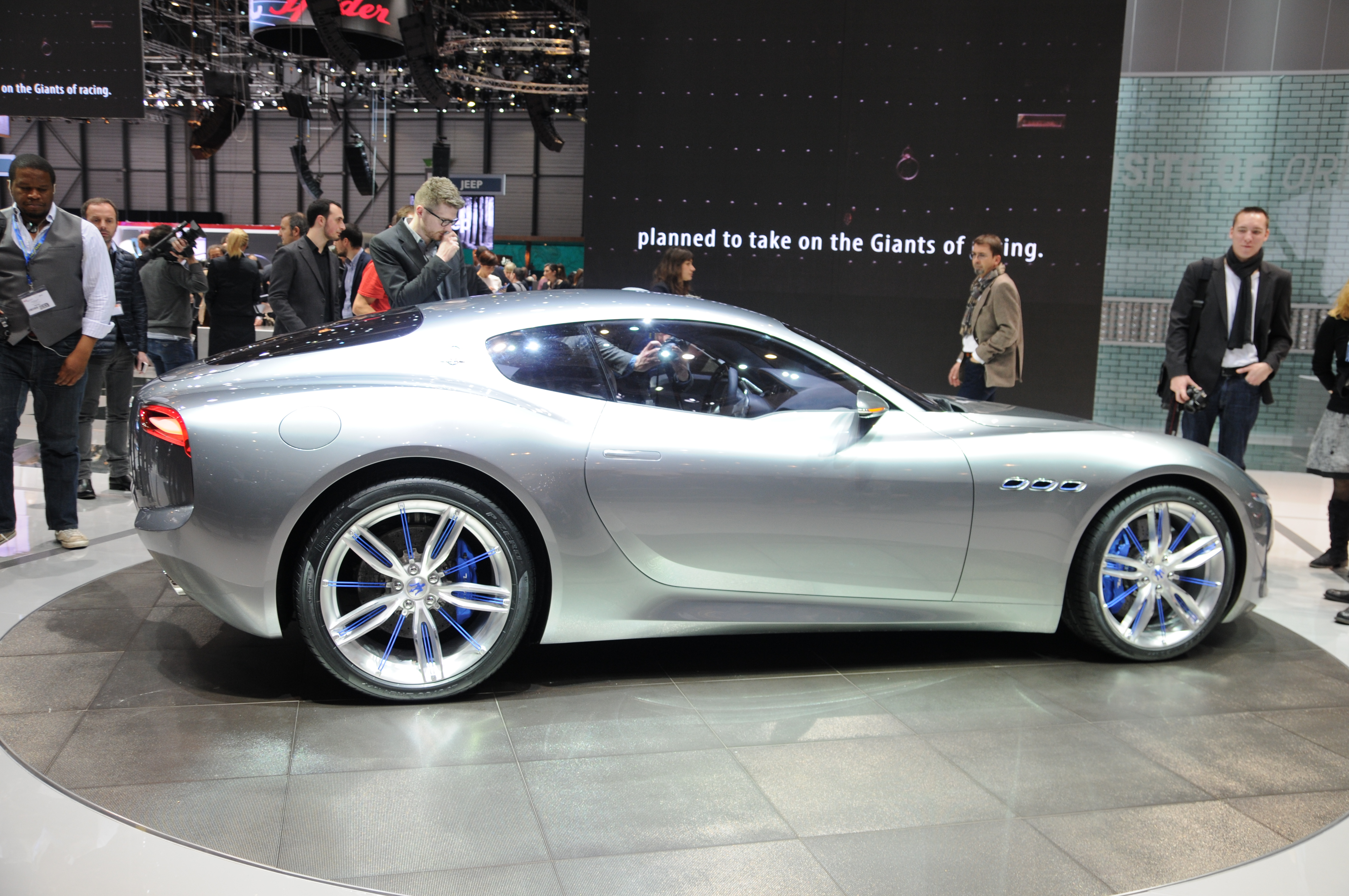 Geneva Motor Show 2014 (photo taken on the first press day)